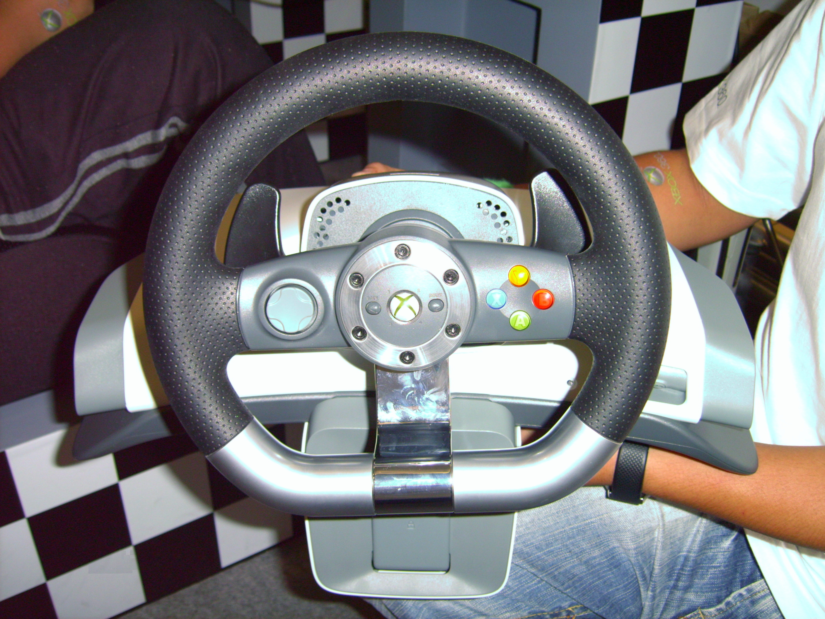 The top part of "Haptic Racing Wheel" for PGR3.